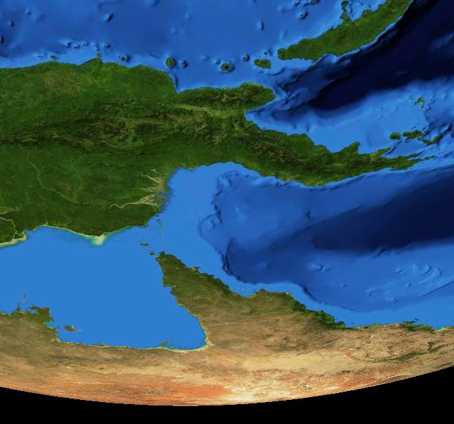 NASA World Wind Landsat or Blue Marble image of Papua New Guinea or Australia